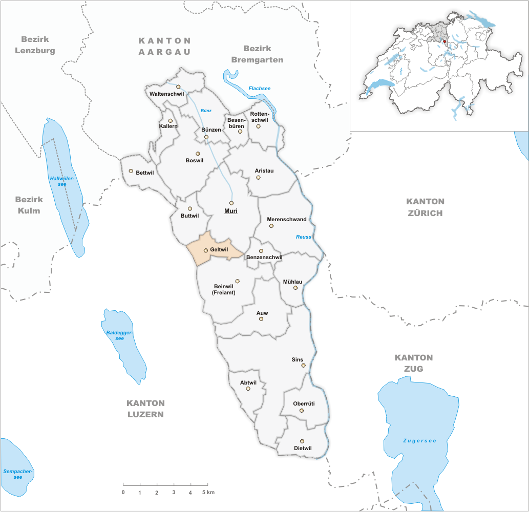 Municipality Geltwil